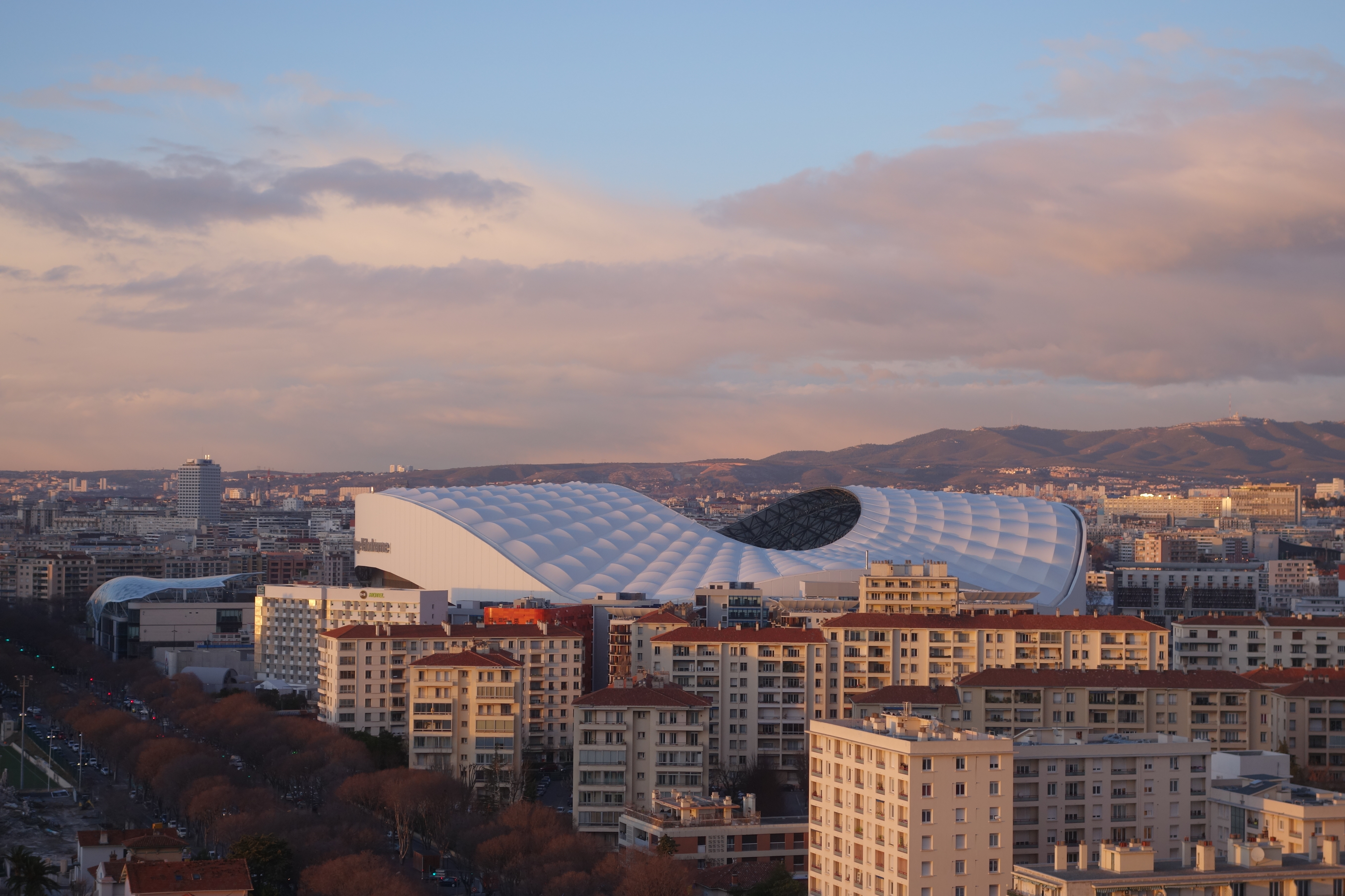 Stade Vélodrome